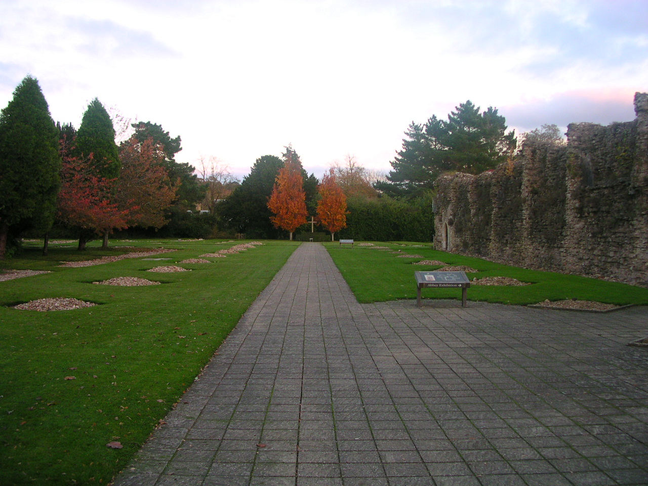 Beaulieu Abbey Hampshire, England. Taken in early November 2007.